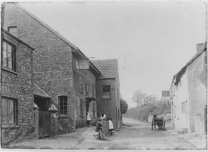 This is the earliest known photograph of Coleridge Cottage. It appears to have been taken in about 1890. The Moore family who owned the cottage are at the entrance to the inn. The point at which the roof had been raised is much clearer in this photograph than in later pictures. The building opposite is the First and Last, in use as a public house since 1871 (in 1982 it was renamed The Ancient Mariner).